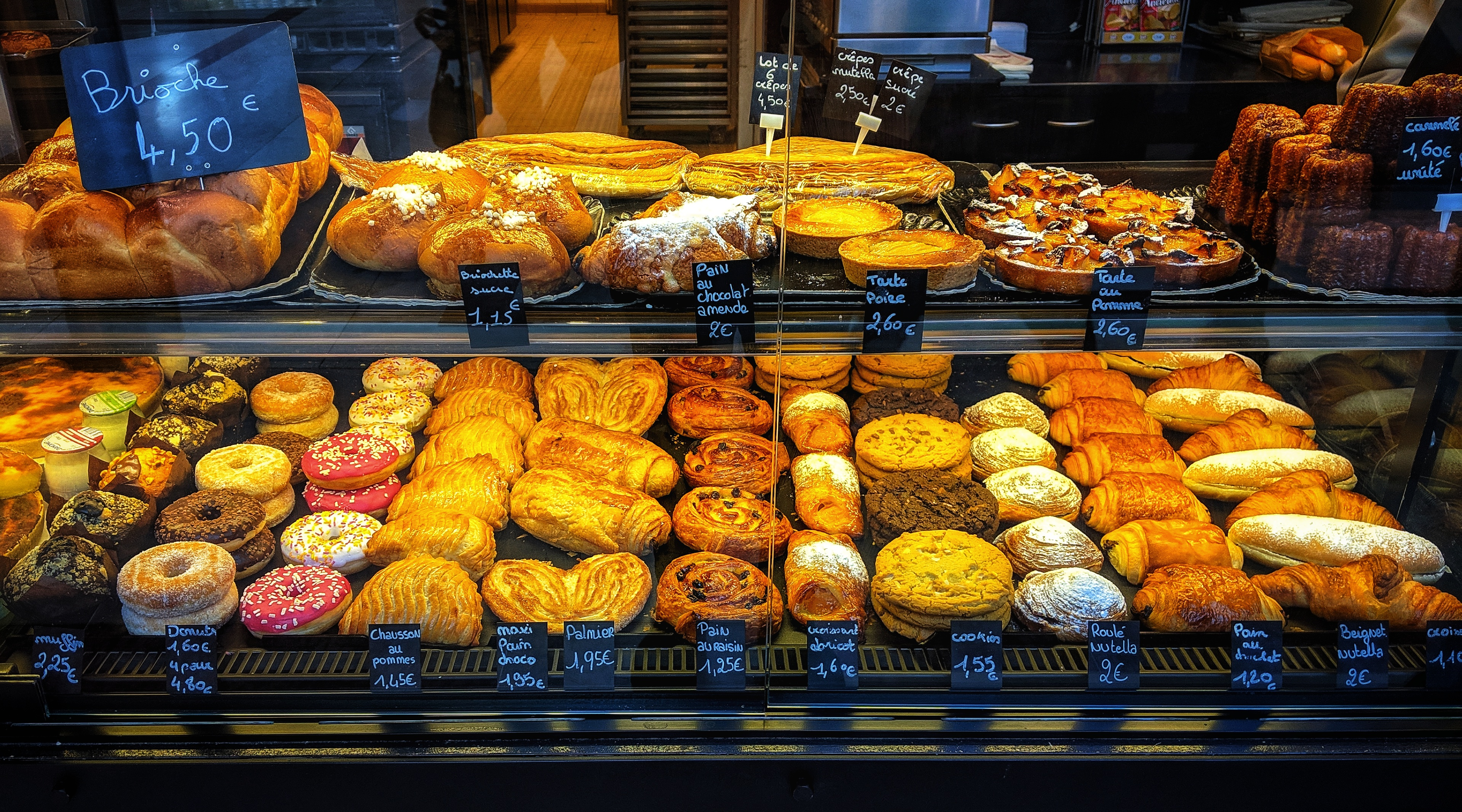 Typical (and not so typical) sweet pastries sold in most French bakeries, including: brioche, muffins, donuts, chaussons aux pommes, palmiers, pains aux raisins, pains au chocolat, tartes, cookies and cannelés.